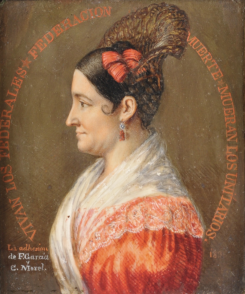 Encarnación Ezcurra, wife of Argentine Dictator Juan Manuel de Rosas, c.1835